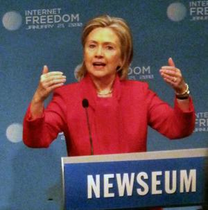 Hillary Diane Rodham Clinton